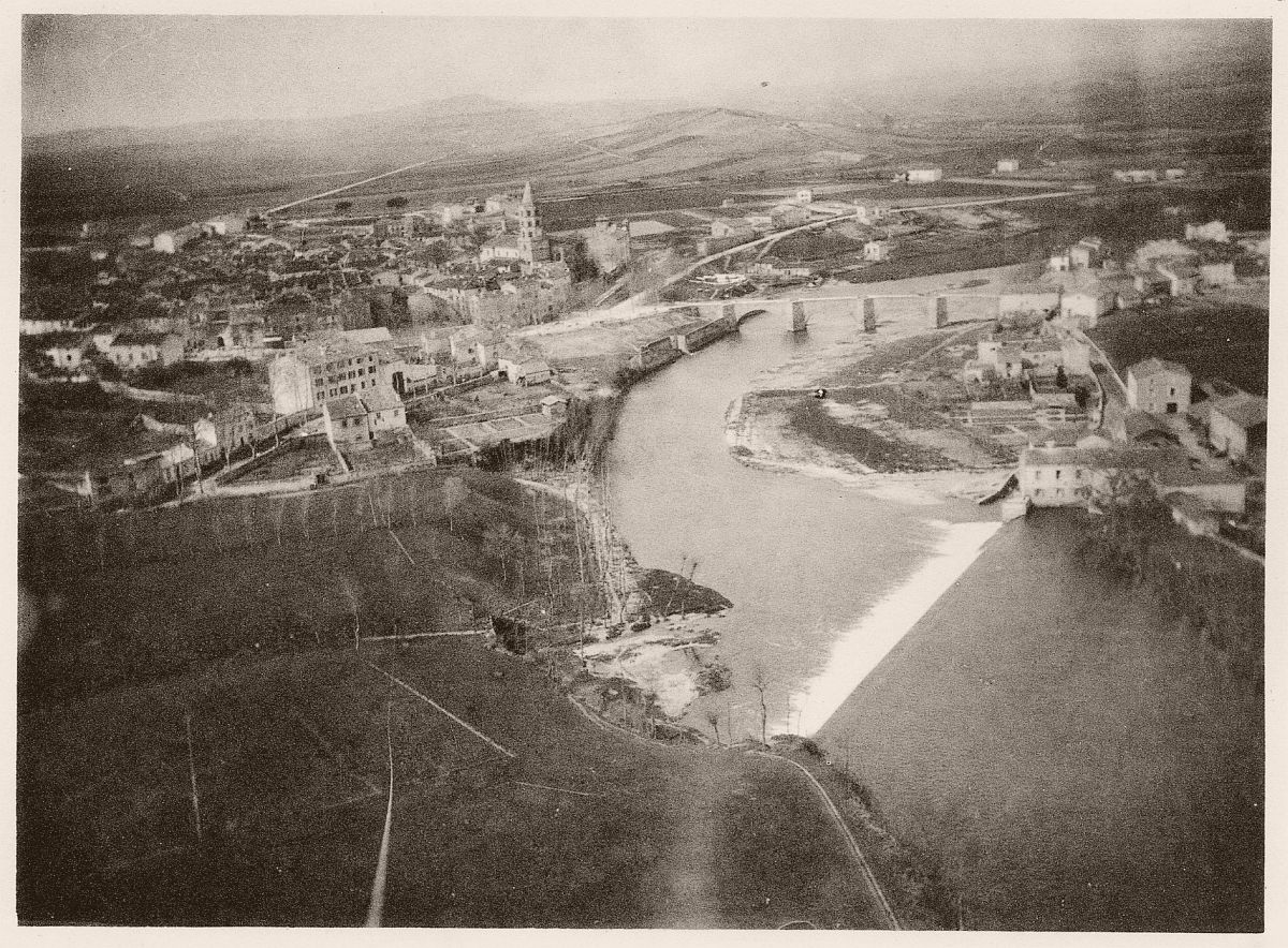 Aerial photograph of Labruguière village in France by Arthur Batut's kite in 1889